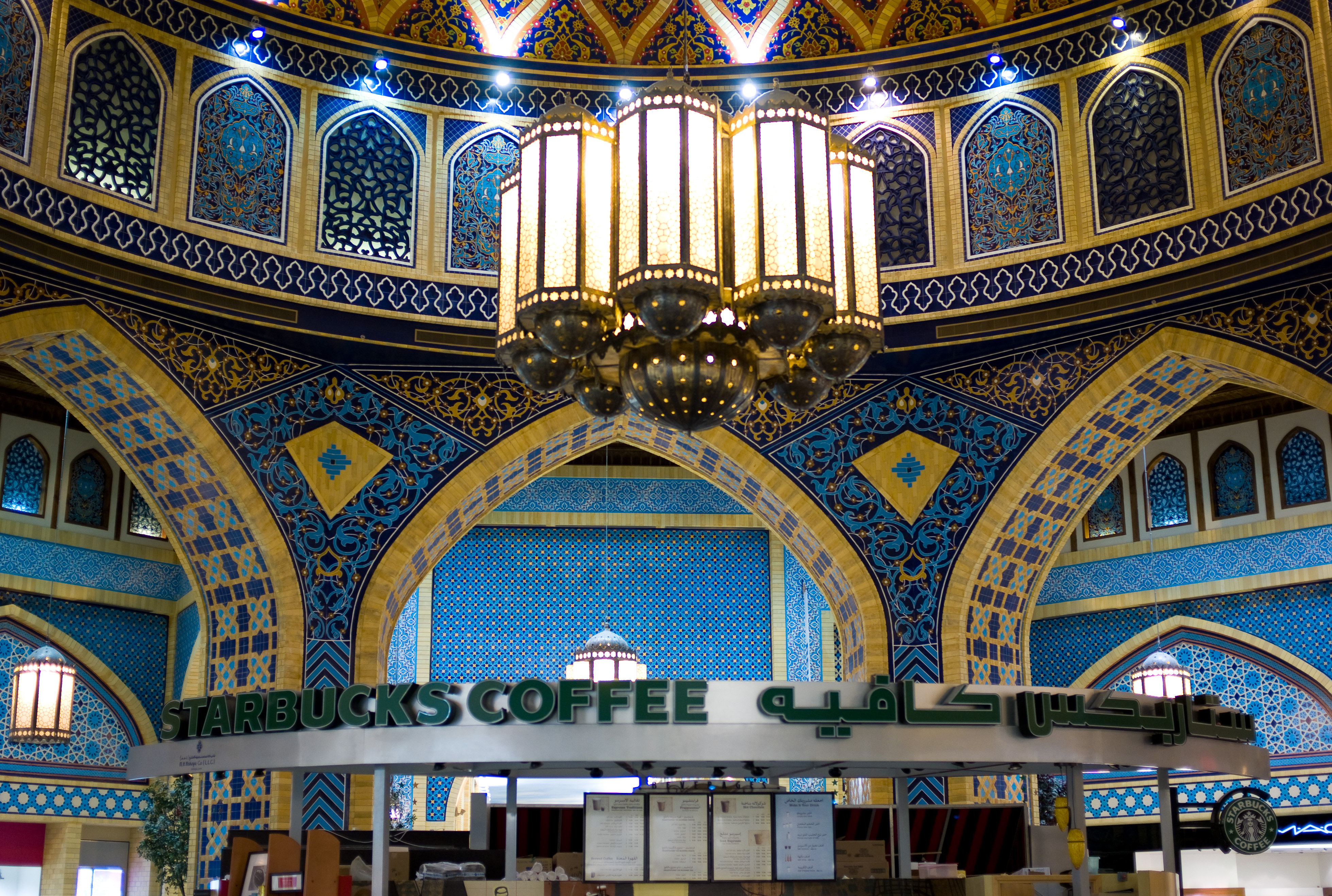 Decorative ceiling above Starbucks in Ibn Battuta Mall, Dubai